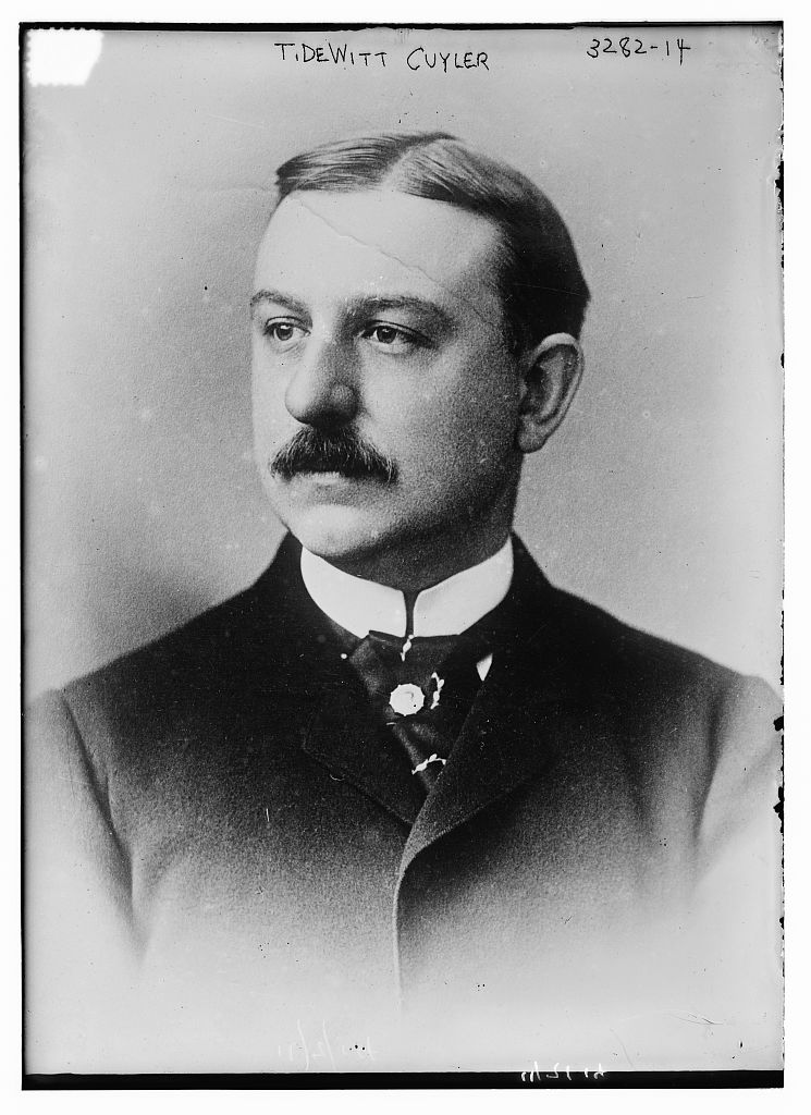 Thomas DeWitt Cuyler circa 1910 T. DeWitt Cuyler (LOC) Bain News Service,, publisher. T. DeWitt Cuyler [between ca. 1910 and ca. 1915] 1 negative : glass ; 5 x 7 in. or smaller. Notes: Title from unverified data provided by the Bain News Service on the negatives or caption cards. Forms part of: George Grantham Bain Collection (Library of Congress). Format: Glass negatives. Repository: Library of Congress, Prints and Photographs Division, Washington, D.C. 20540 USA, General information about the Bain Collection is available at Persistent URL: Call Number: LC-B2- 3282-14